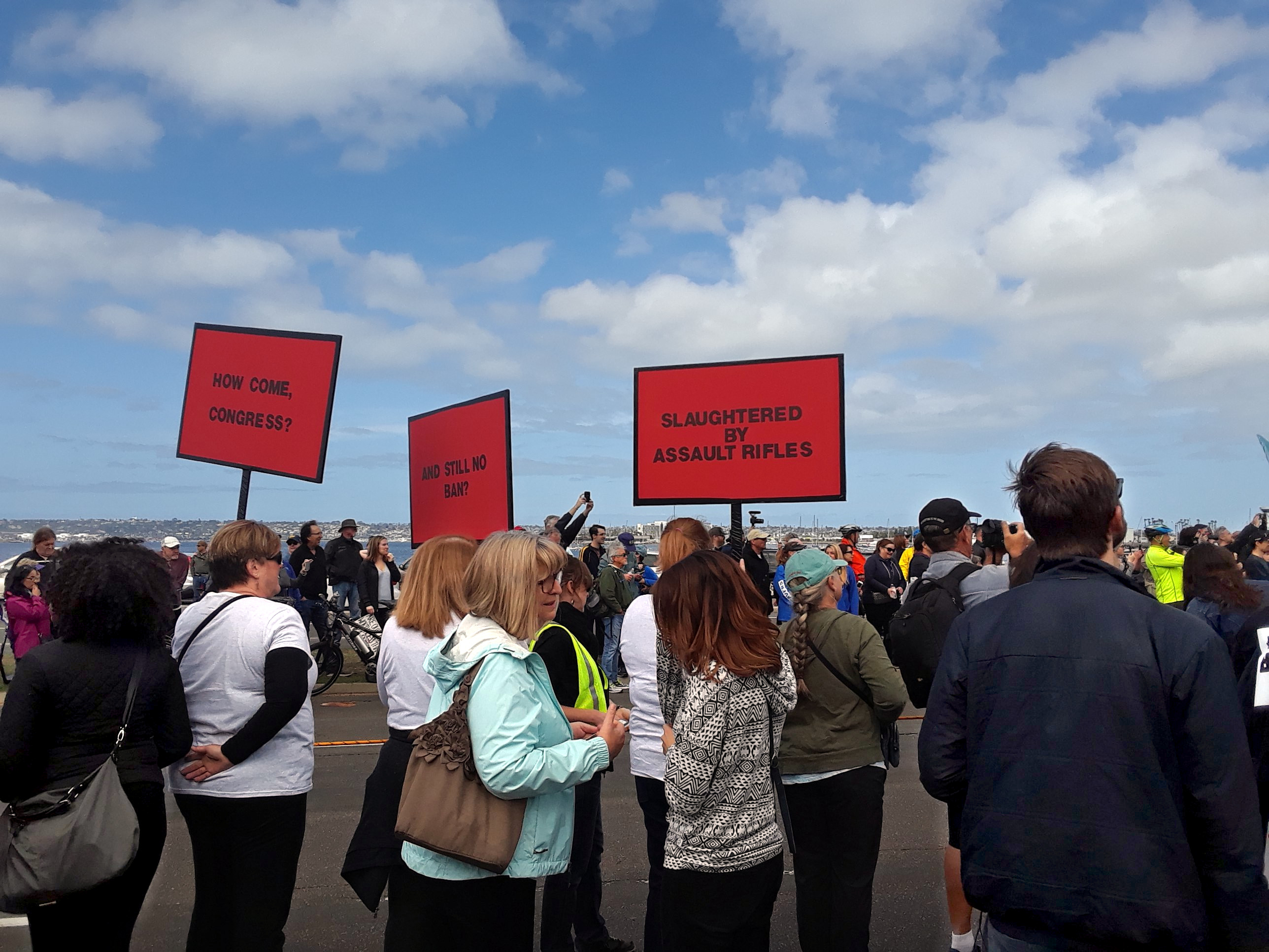 Waterfront Park